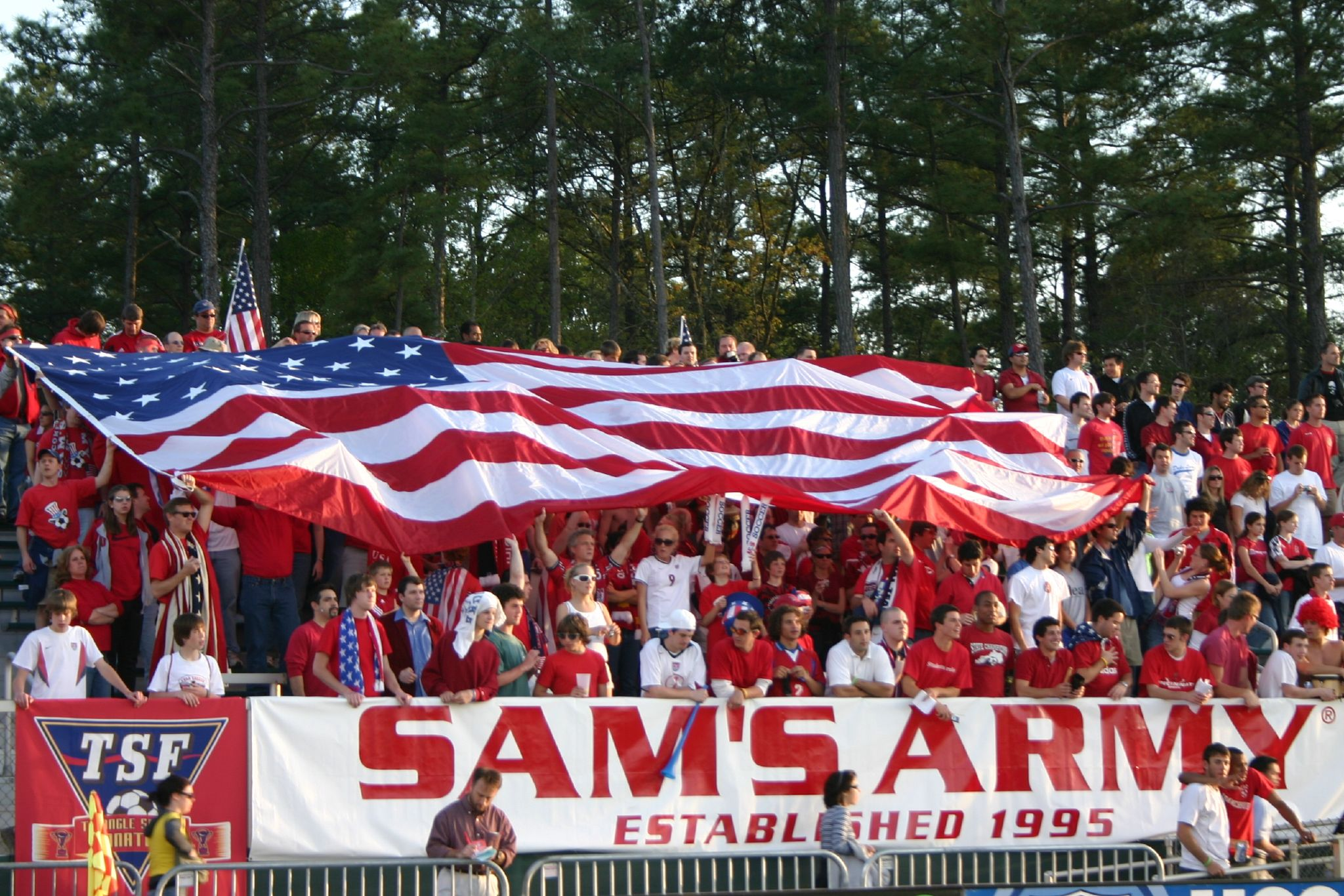 Sam's Army